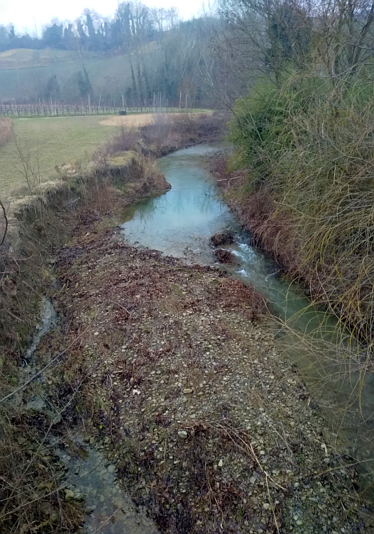 Sintria creek in Villa San Giorgio in Vezzano (Brisighella, RA, Italy)